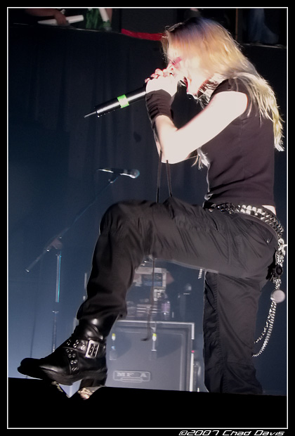 Arch Enemy's vocalist Angela Gossow in Milwaukee, WI, 2006